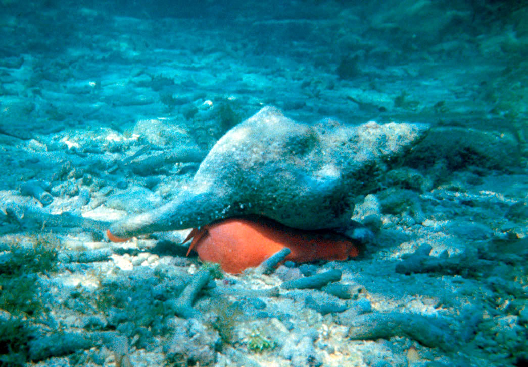 The Florida horse conch (Pleuroploca gigantea) is the Florida state shell. It usually lives in the seagrass beds and around the patch reefs inshore of the main reef.